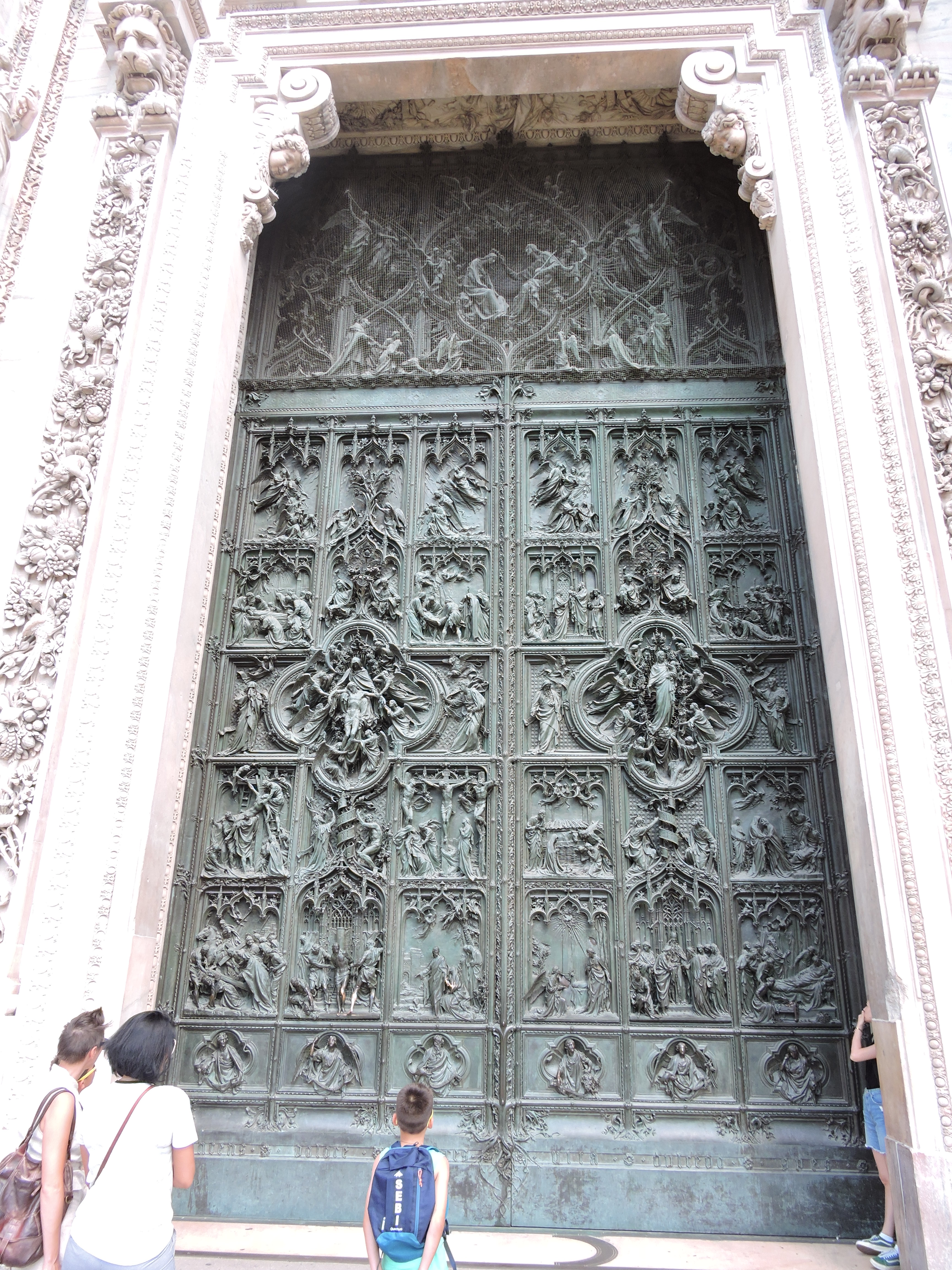 Art work on door Milan Cathedral ,Italy